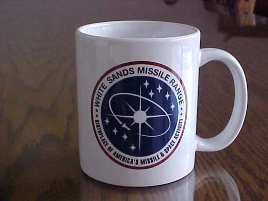 A Coffee mug featuring the White Sands Missile Range Museum logo.